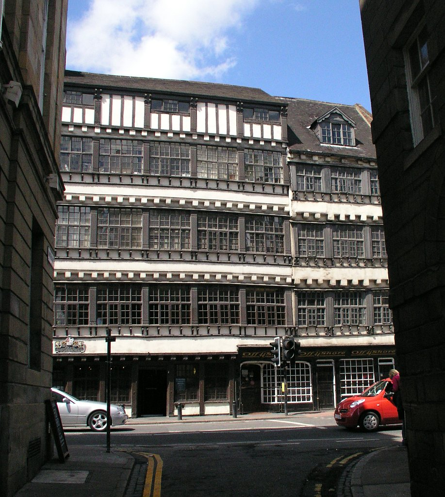 Bessie Surtees House, Quayside, Newcastle Upon Tyne.